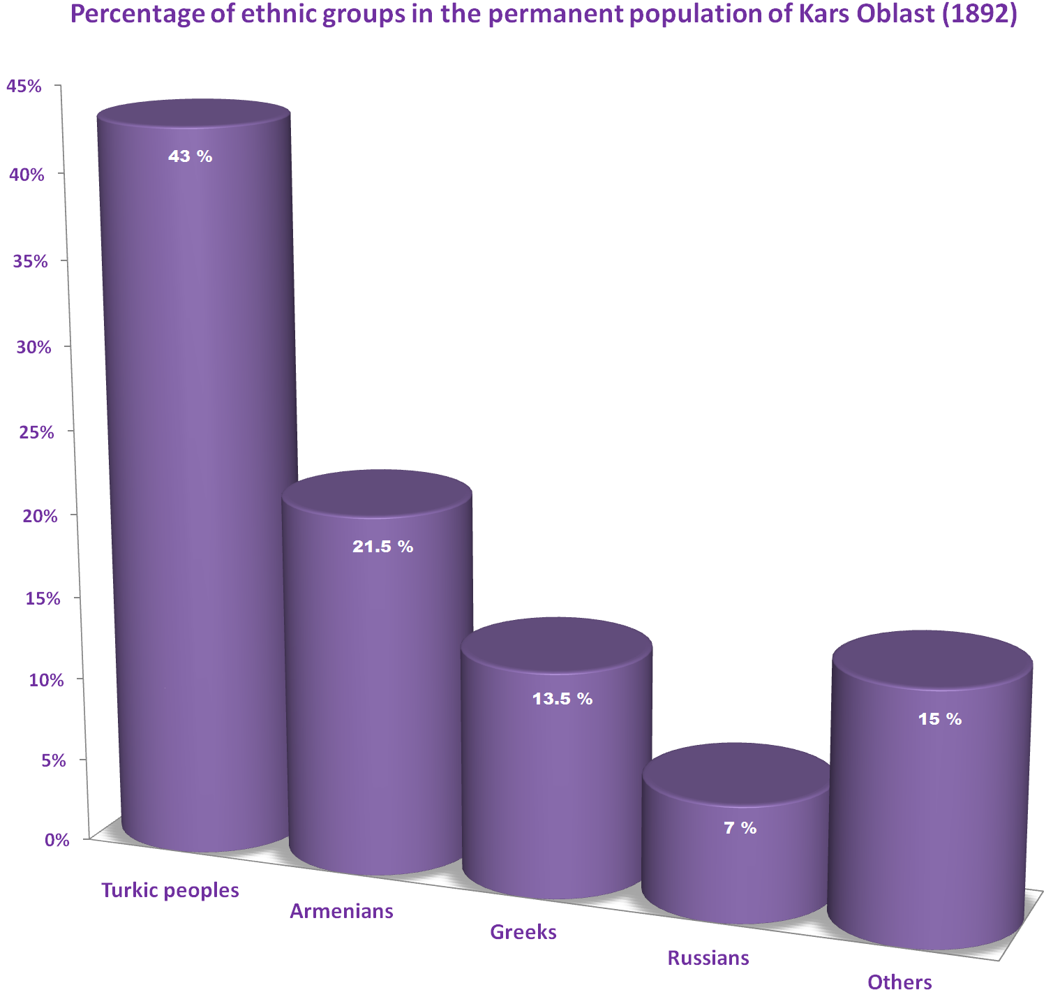 Percentage of ethnic groups in the permanent population of Kars Oblast (1892)